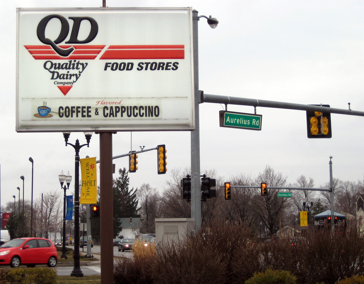 Quality Dairy sign in Delhi Charter Township (Holt), Michigan, at intersection of Cedar Street and Aurelius Road.